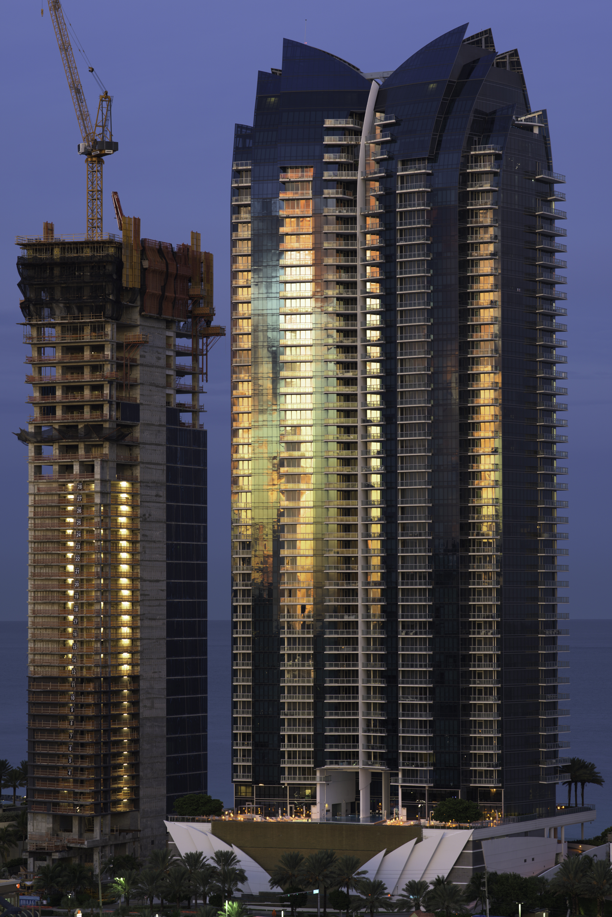 Architect: Carlos Ott. Muse (building) Sunny Isles, Florida.